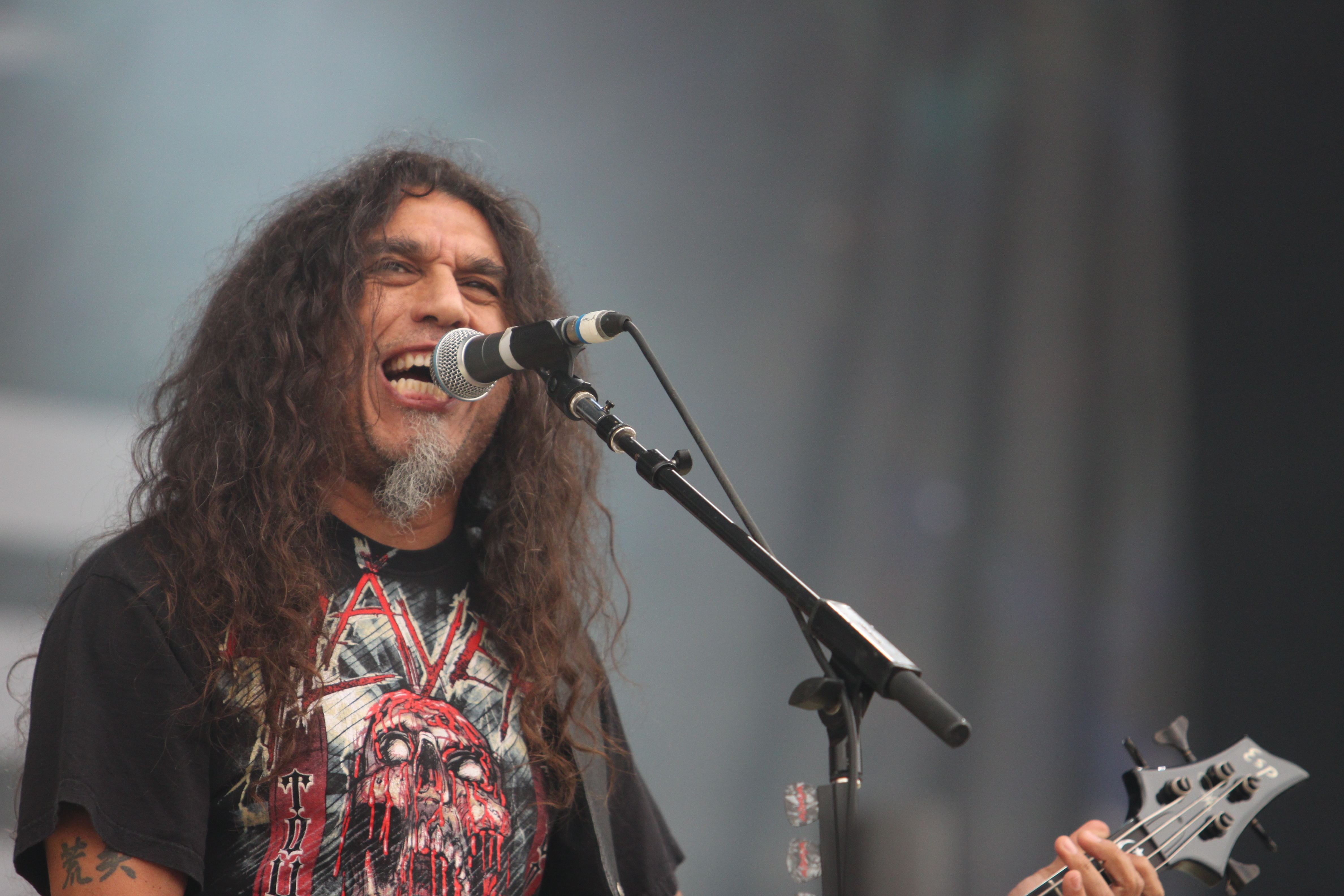 Tom Araya of Slayer on stage at Sonisphere Knebworth, August 2010